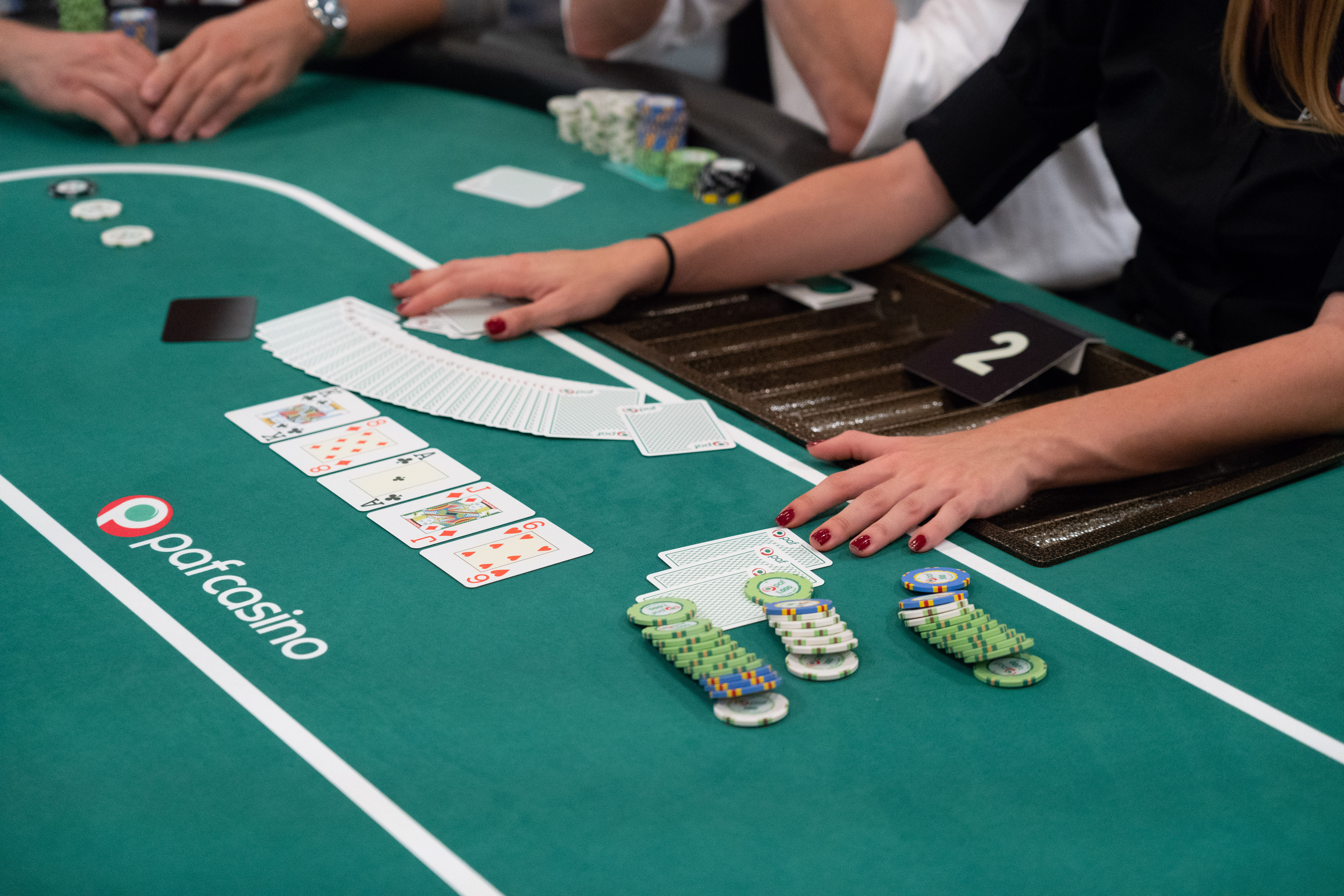 Action from late on Day Two of Paf Destination Poker 2018 at Hotel Arkipelag in Mariehamn on Åland on 7 September 2018. Photograph: Rob Watkins/Paf 08.09.2018